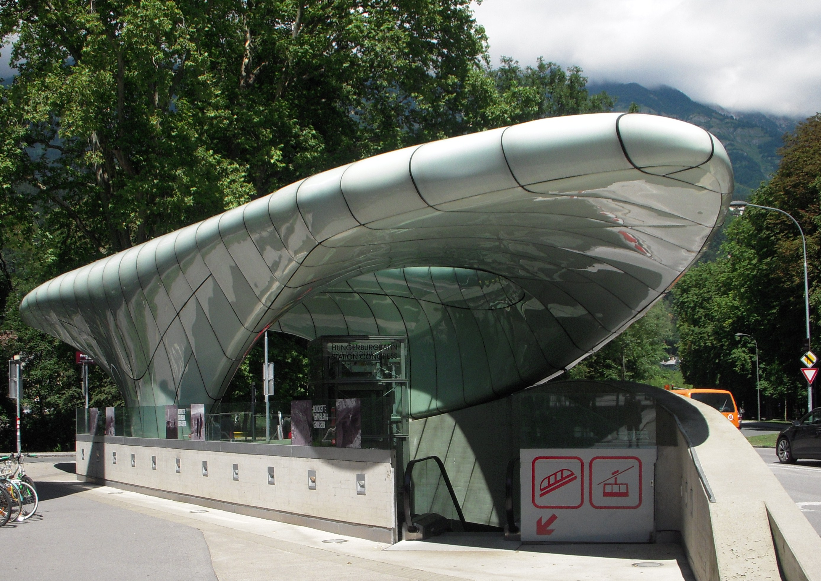 Hungerburgbahn, Innsbruck, Austria. August 7, 2012.